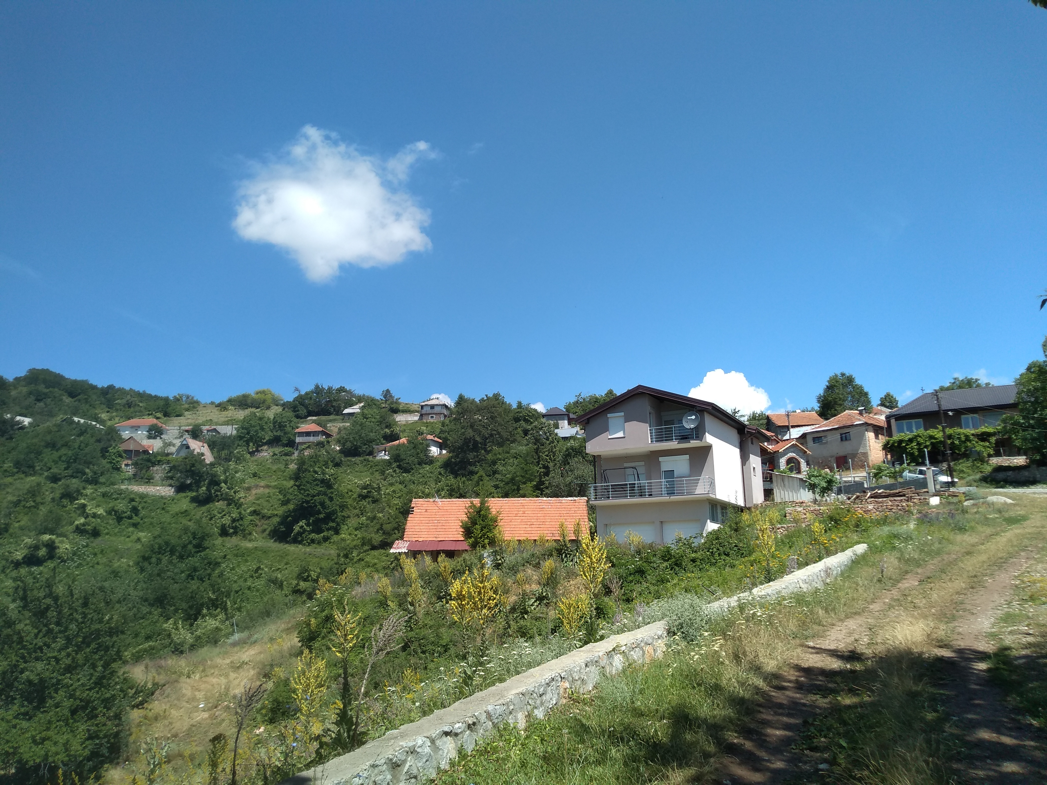 Village of Crvena Voda (Red Water) in Debarca region near Ohrid, Macedonia